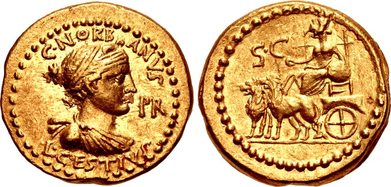 L. Cestius and C. Norbanus May-August 43 BC. AV Aureus (20mm, 8.08 g, 12h). Rome mint. Draped bust of Sibyl (?) right, her head elaborately bound with fillet, and hair collected into a knot behind; C • NORB ANVS above; L • CESTIVS below; PR to right / Cybele, wearing turreted crown, enthroned left in chariot, drawn left by two lions, holding patera in right hand and reins in left, resting left arm on tympanum; S • C to upper left. Crawford 491/2; CRI 196; Bahrfeldt 26; Calicó 5; Biaggi 25 var. (break in obv. legend); Sydenham 1155; Kestner -; BMCRR Rome 4194 (same obv. die); RBW 1719; CNR Norbana 9. EF, lustrous, minor traces of die rust and deposits on obverse. Rare.